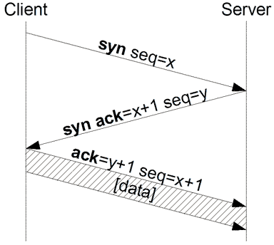 Diagram of the initialisation (handshake) of a TCP connection.